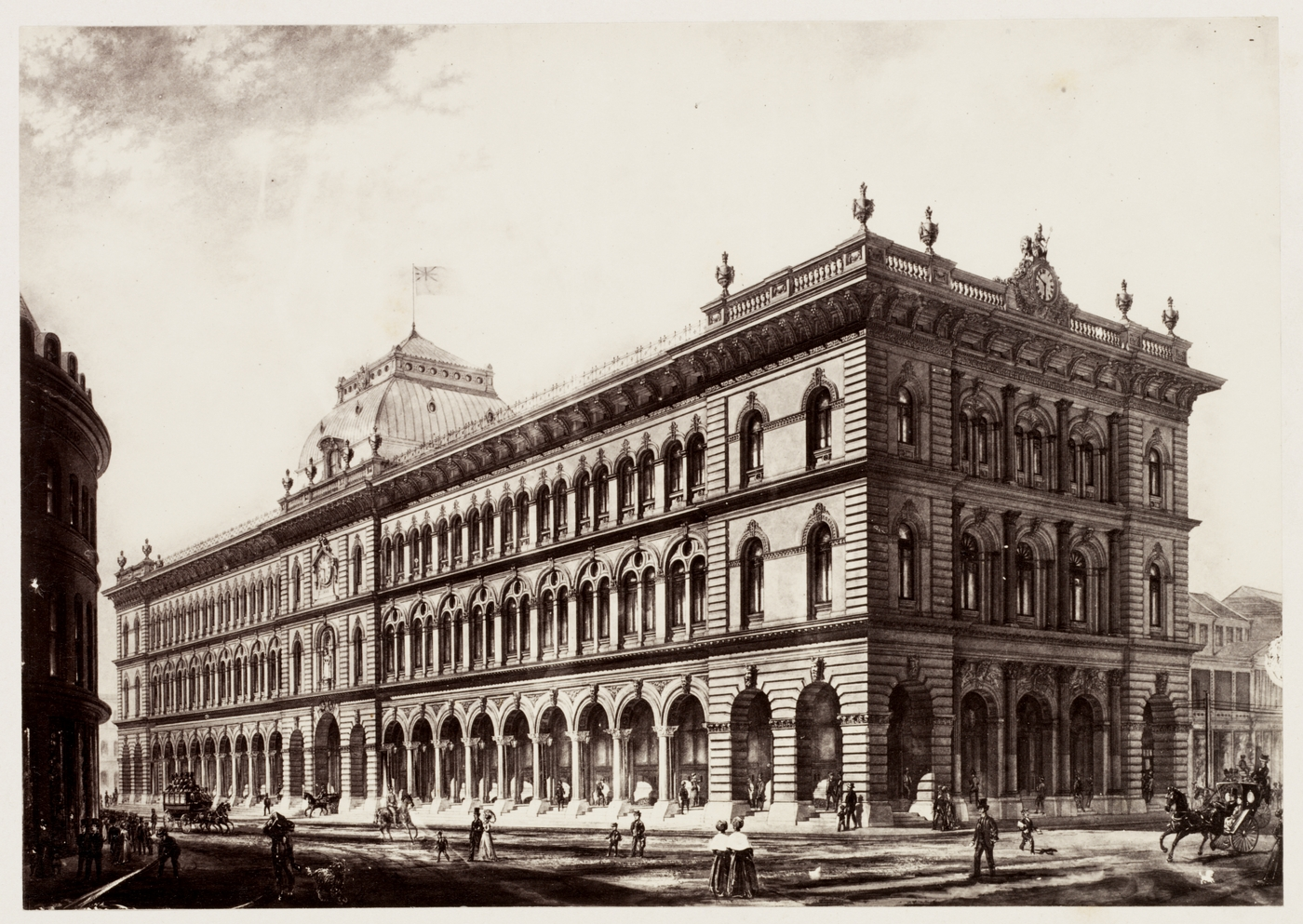 14. Post Office (Taken from the Drawing)